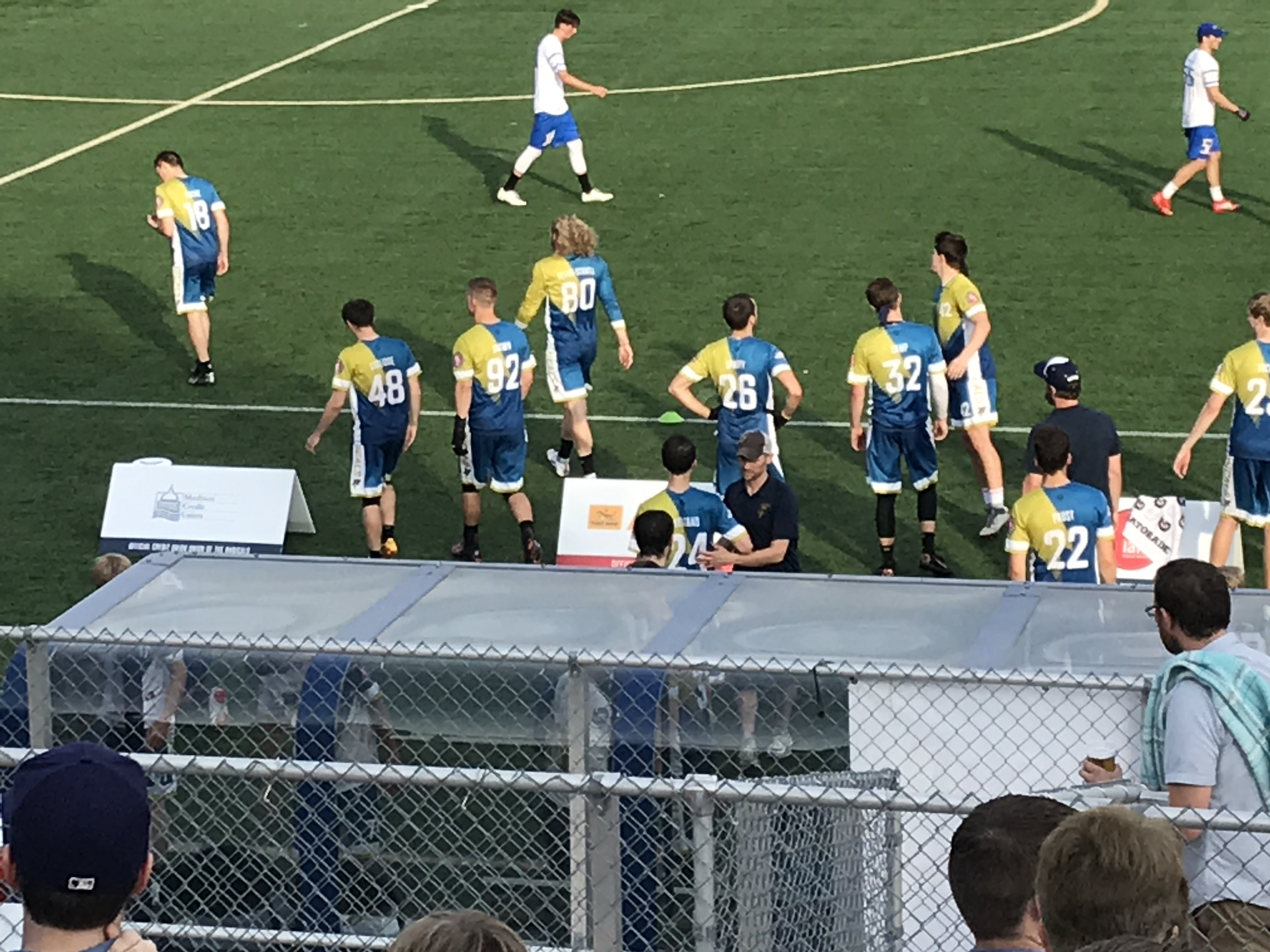 The Madison Radicals wearing their home uniforms before a game against the Chicago Wildfire at Breese Stevens Field on June 28, 2019.